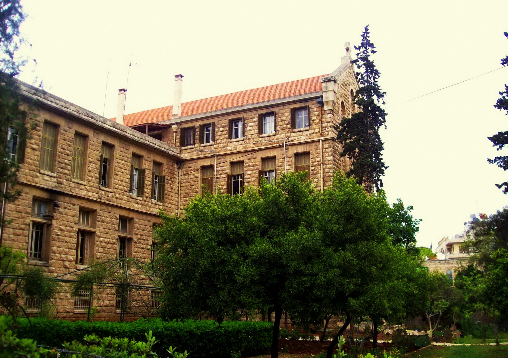 Monastery of the Franciscan Missionaries of Mary in Aleppo, Syria.